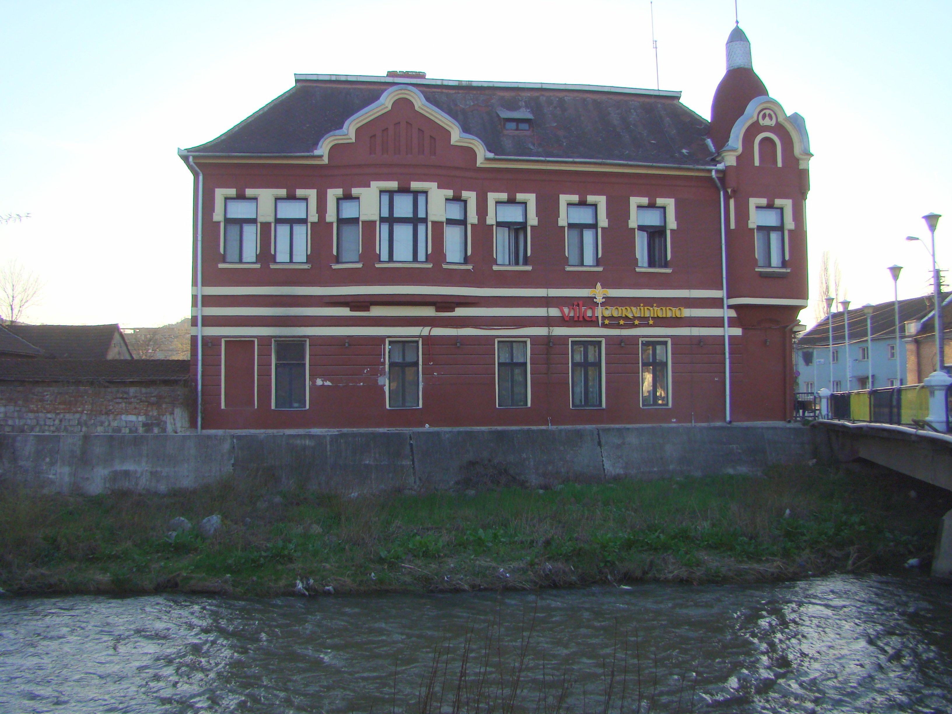 Villa Corviniana in Hunedoara, Hunedoara county, Romania